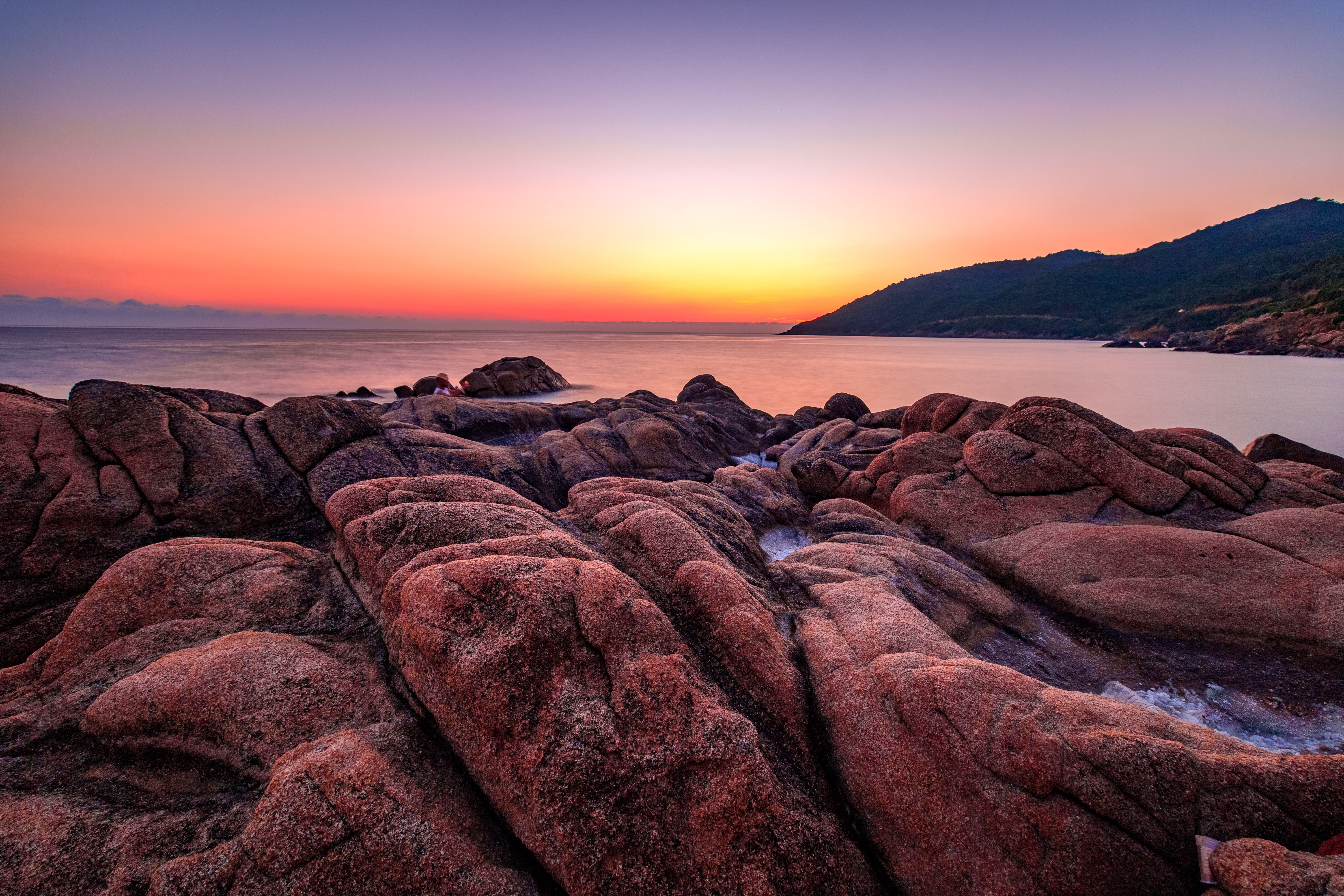 Mersa Zitoune Beach in Khenak Mayoune district, near Collo Town, wilaya of Skikda, Est of Algeria